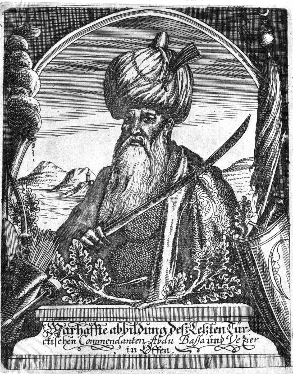 Arnavut Abdurrahman Abdi Paşa, last Ottoman defender of Buda's fortress